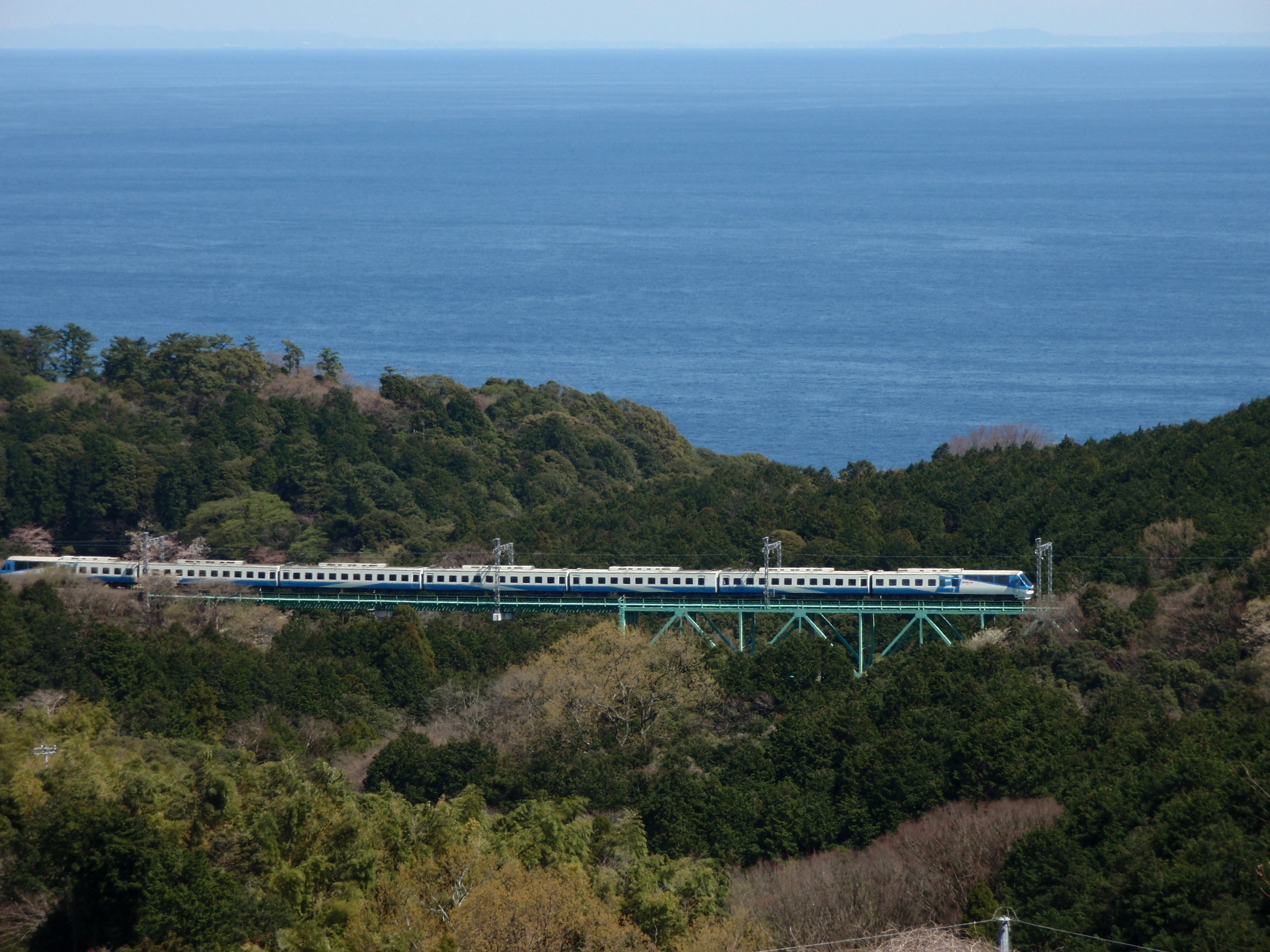 Izu Kyuko Railway type 2100 "Resort21" between Kawana Sta. and Futo Sta.